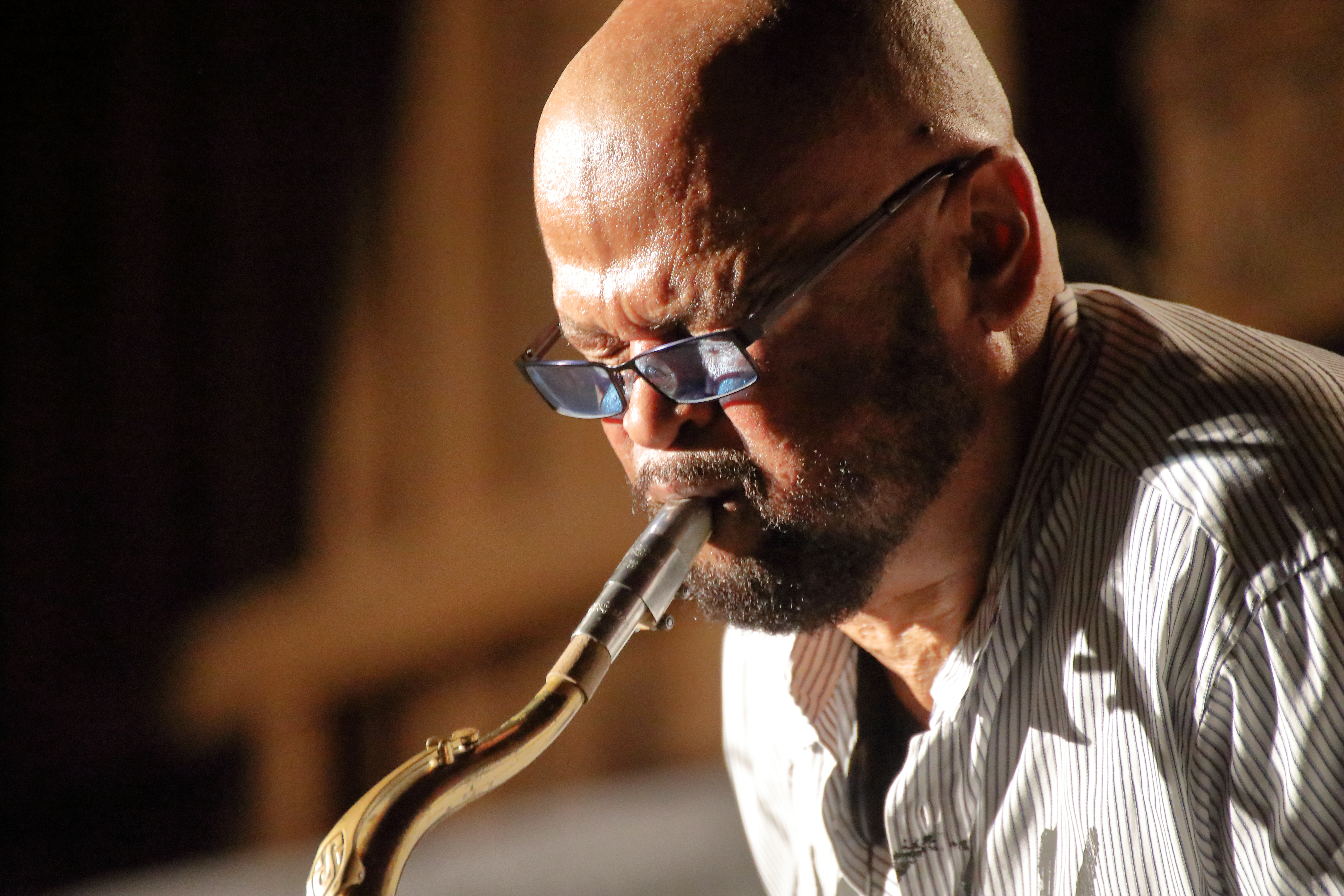 The Azar Lawrence Experience at INNtöne Jazzfestival 2019.